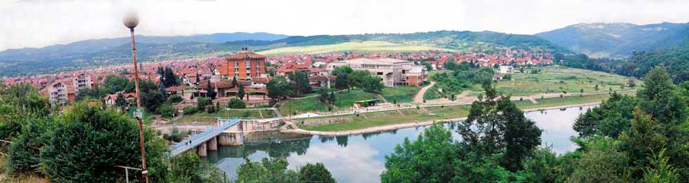 Panoramic view of Vlasotince, Serbia